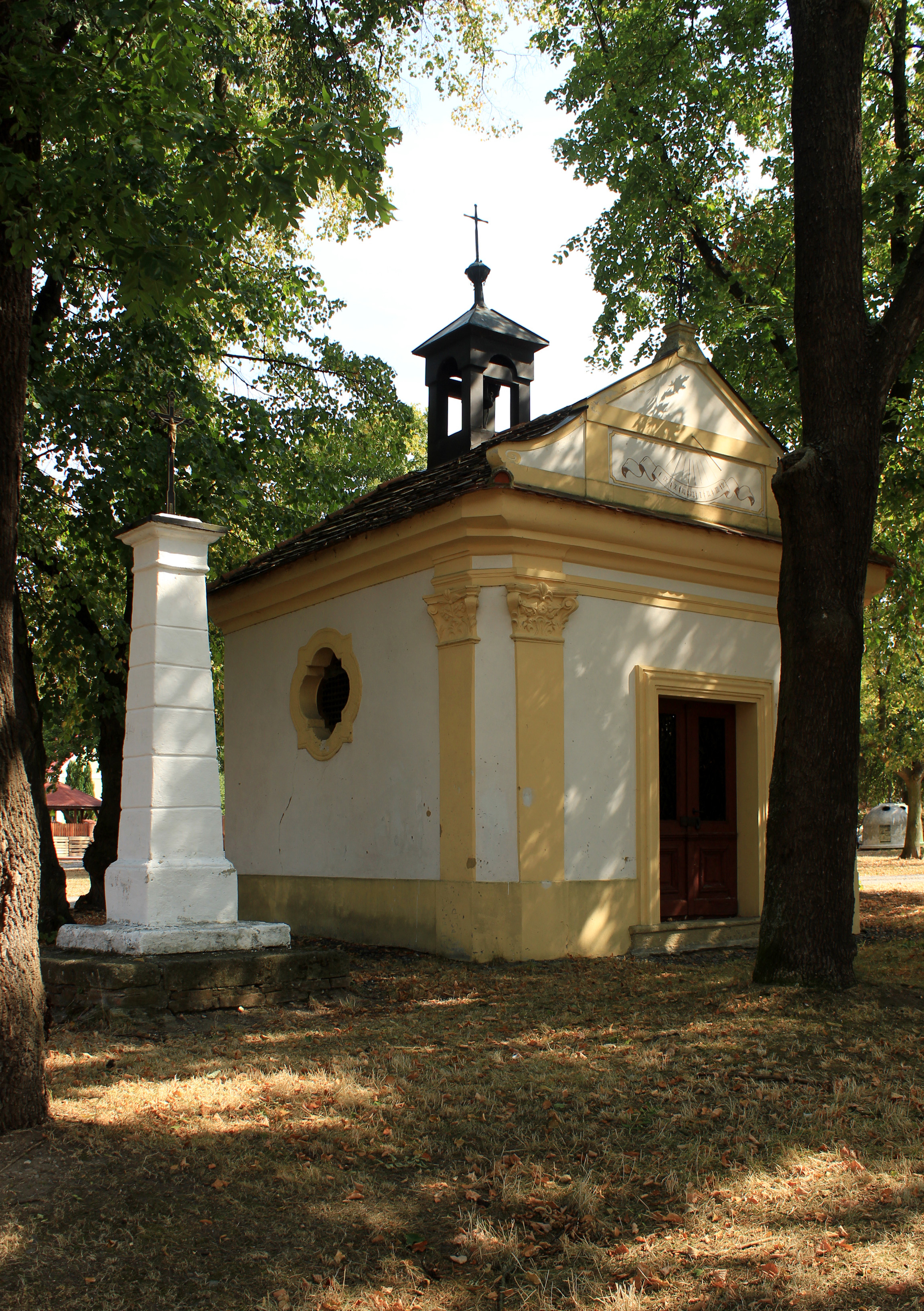 Chapel in Vodní Újezd, part of Dobřany, Czech Republic.